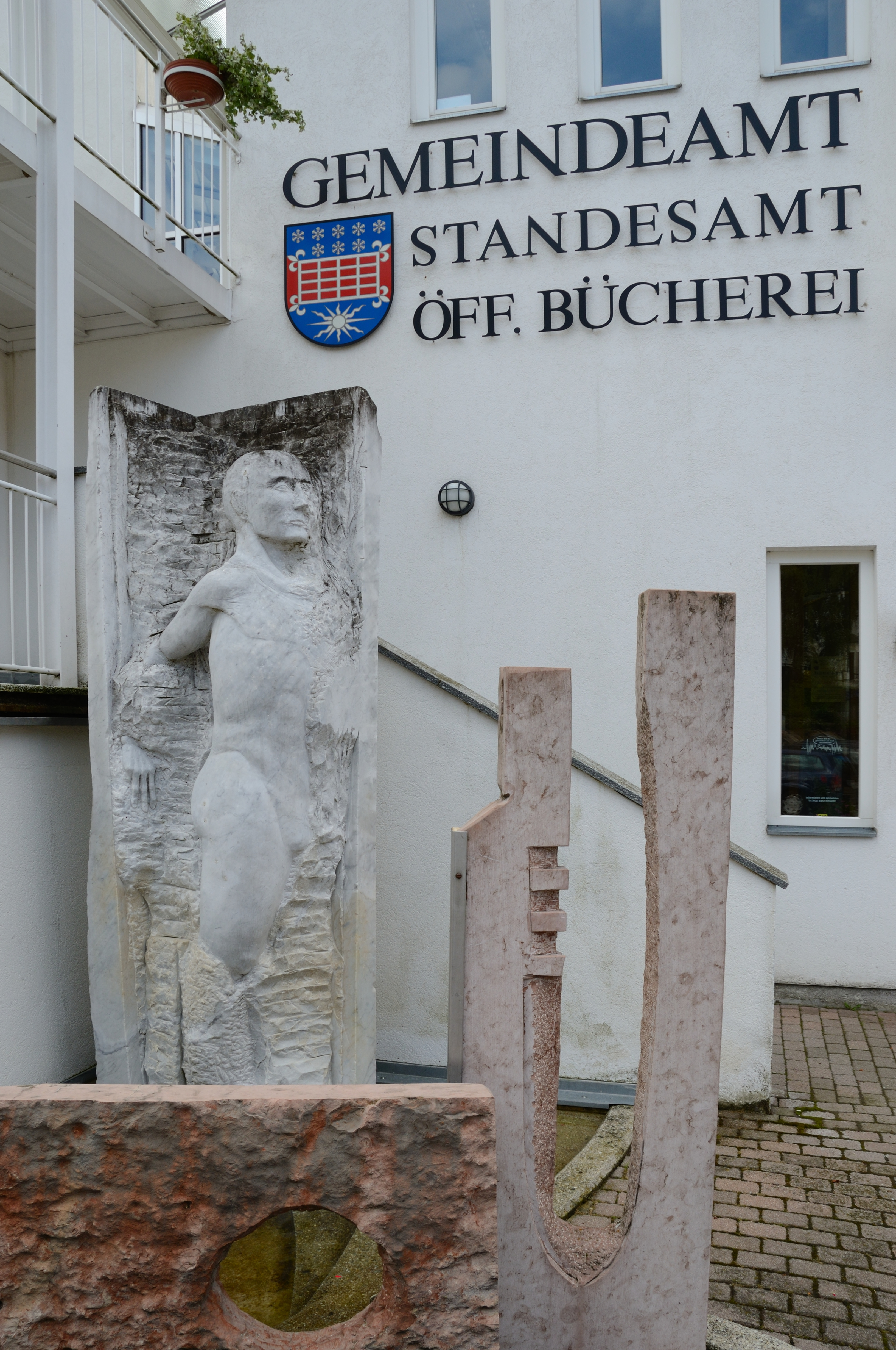 Fountain in front of the municipial office and the Raiffeisenbank at Sankt Lorenzen am Wechsel, Styria.